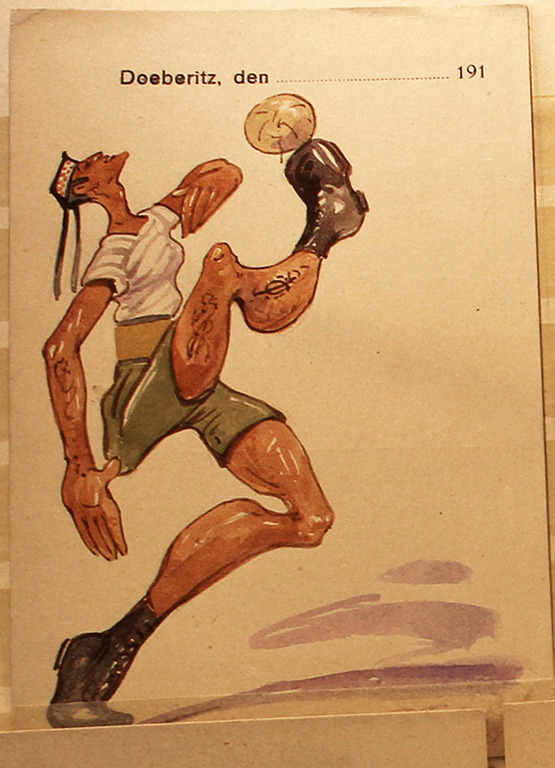 Postcard with caricature of Prisoner of War from Döberitz prison camp